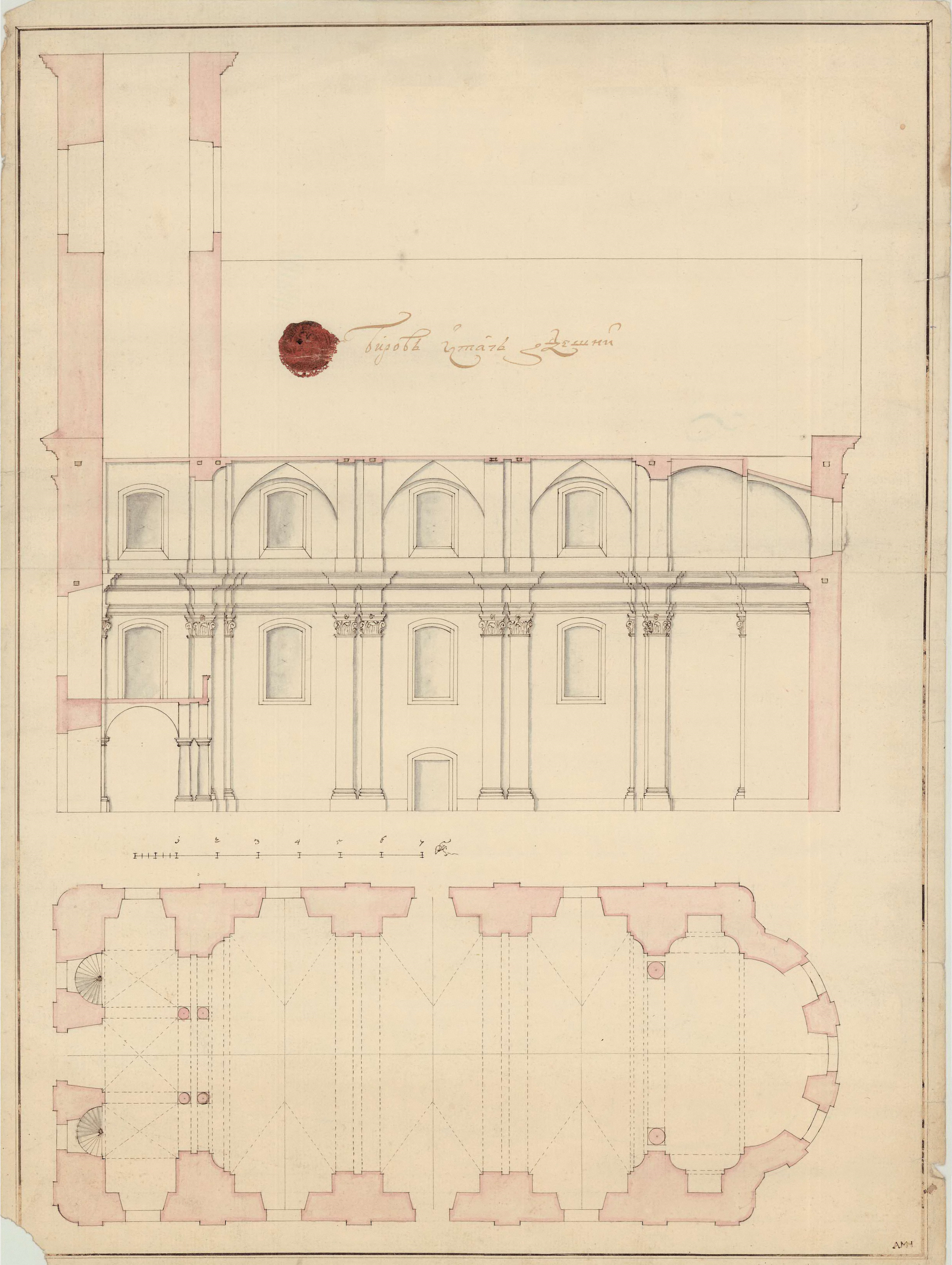 Plan of the Church of Saint Demetrius in Buda by Ádám Mayerhoffer (c. 1741). The Baroque church served as co-cathedral of the Serbian Orthodox Eparchy of Buda until its demolition in 1949 due to serious damages in WW2. The plan was preserved in the Municipal Archives of Budapest (HU BFL - XV.17.a.302 - 8).